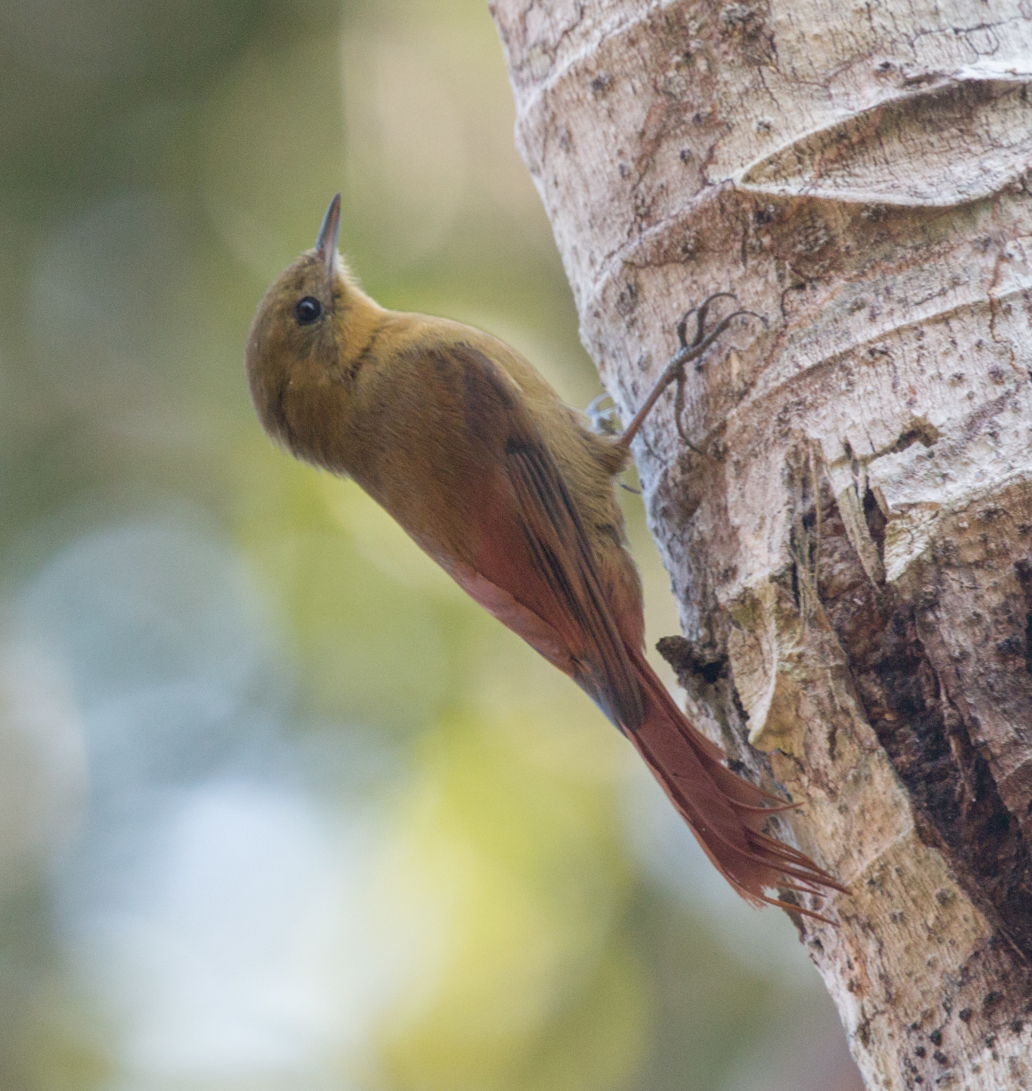 Woodcreepers are really fun birds to watch. Look at those crazy talons for scampering up trees. Misiones, Argentina.